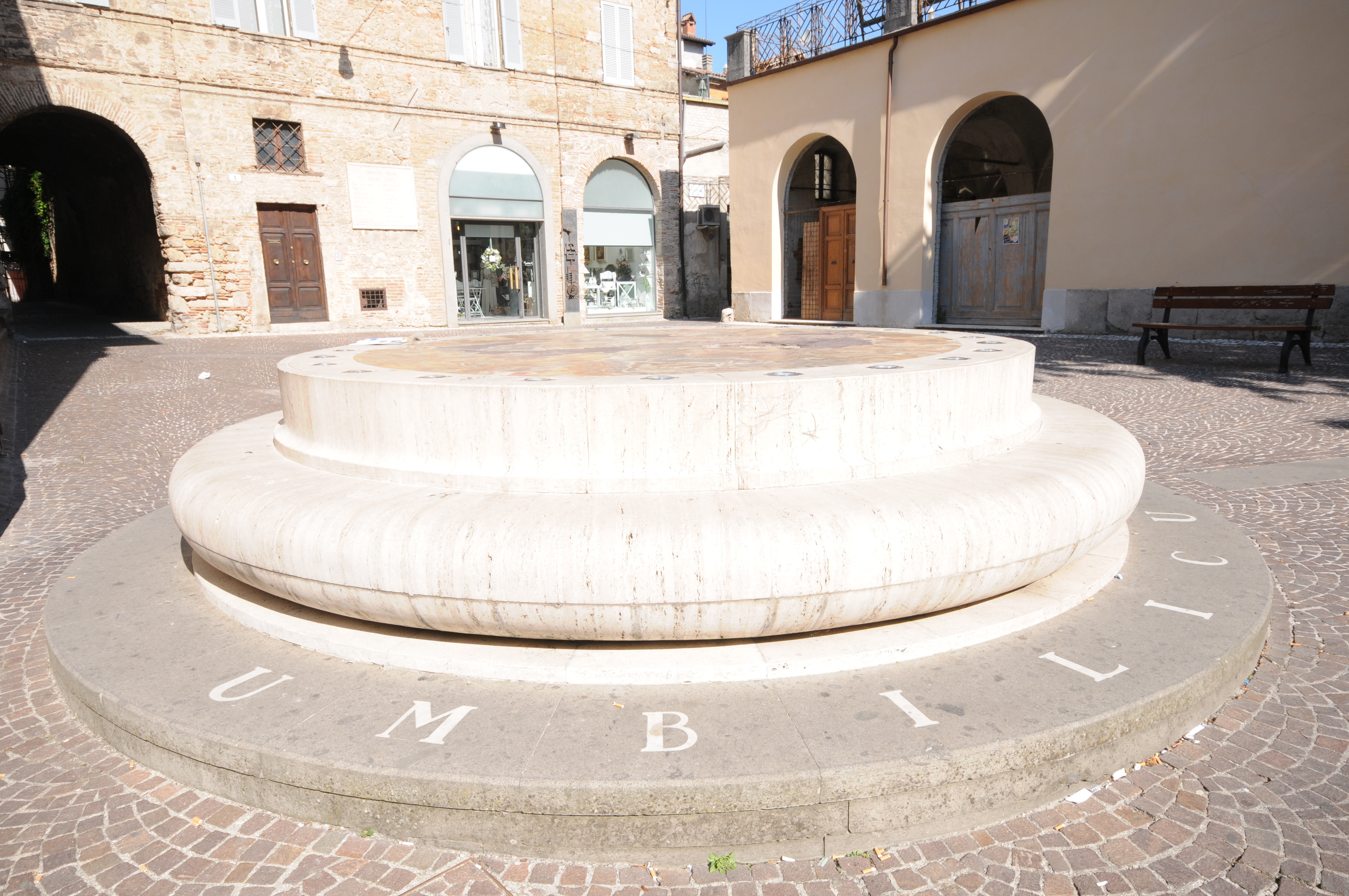 Monument in San Rufo square - Rieti (Lazio, Italy). It is traditionally believed to be the geographical center of Italy.